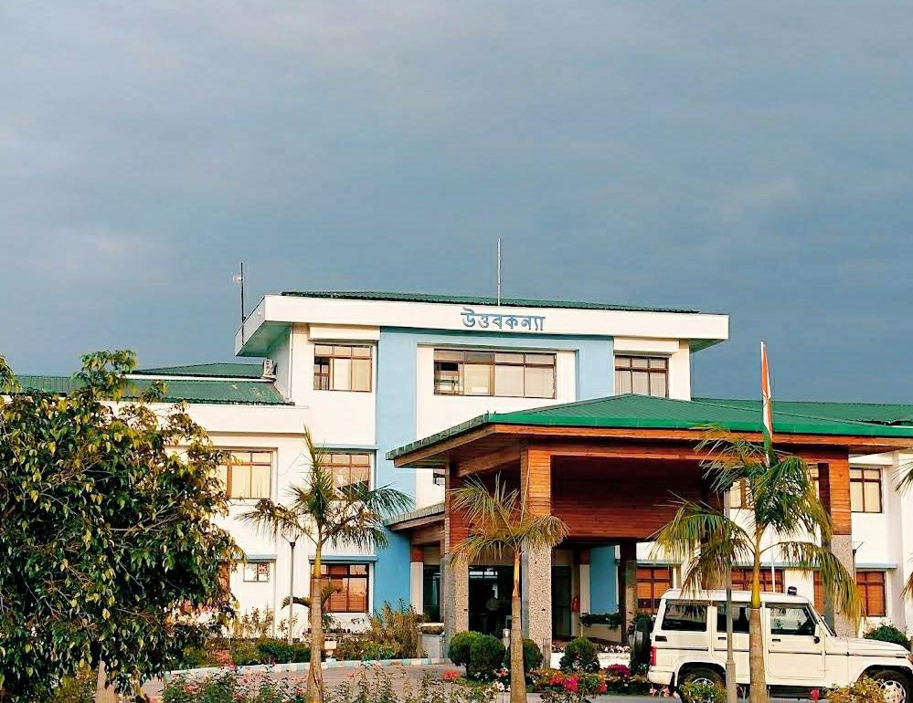 Picture of Uttar Kanya, Siliguri, the office of North Bengal Development Department, Government of West Bengal